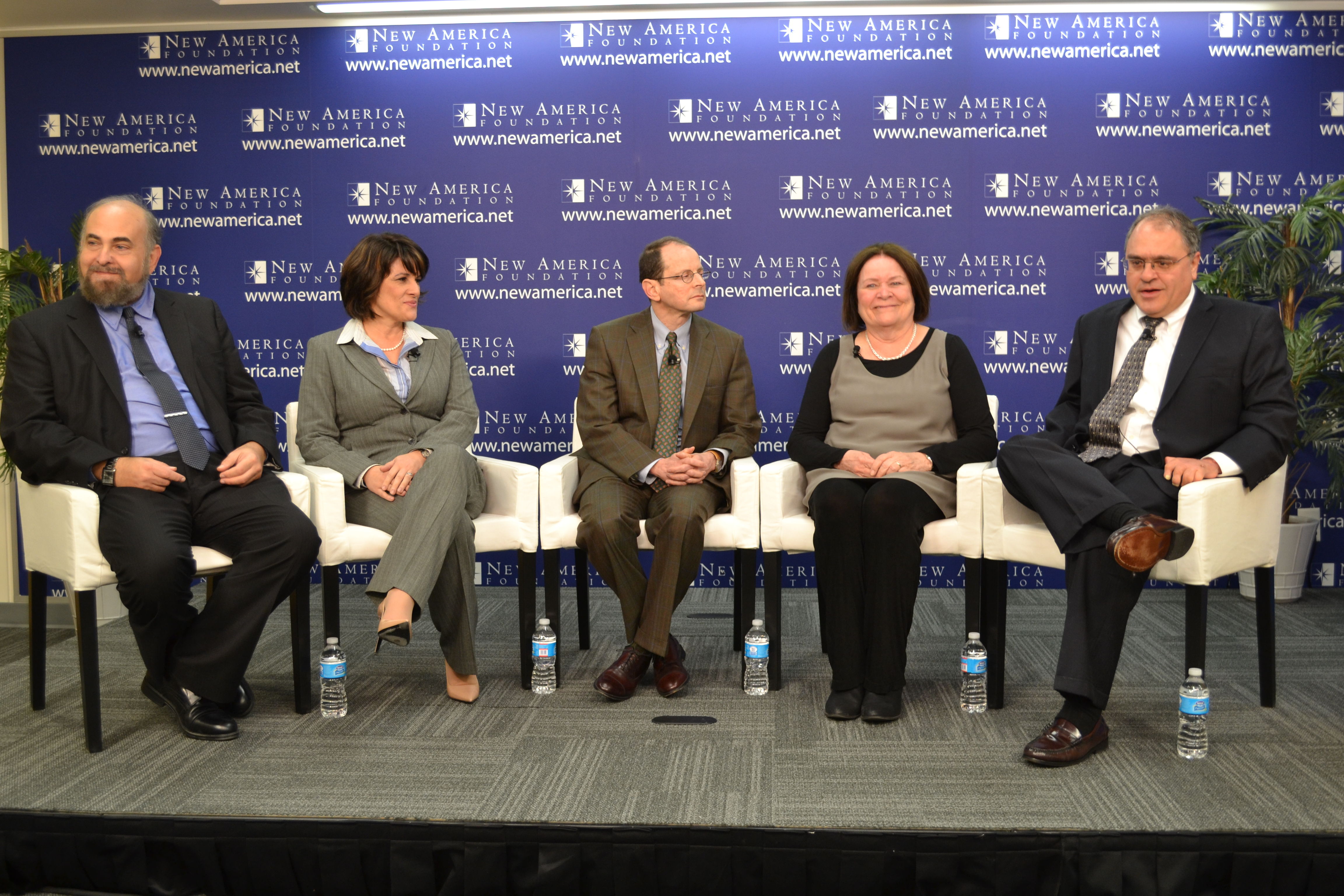 Mark Kleiman, Alison Holcomb, Jonathan Rauch, Sue Rusche, and moderator Paul Glastris